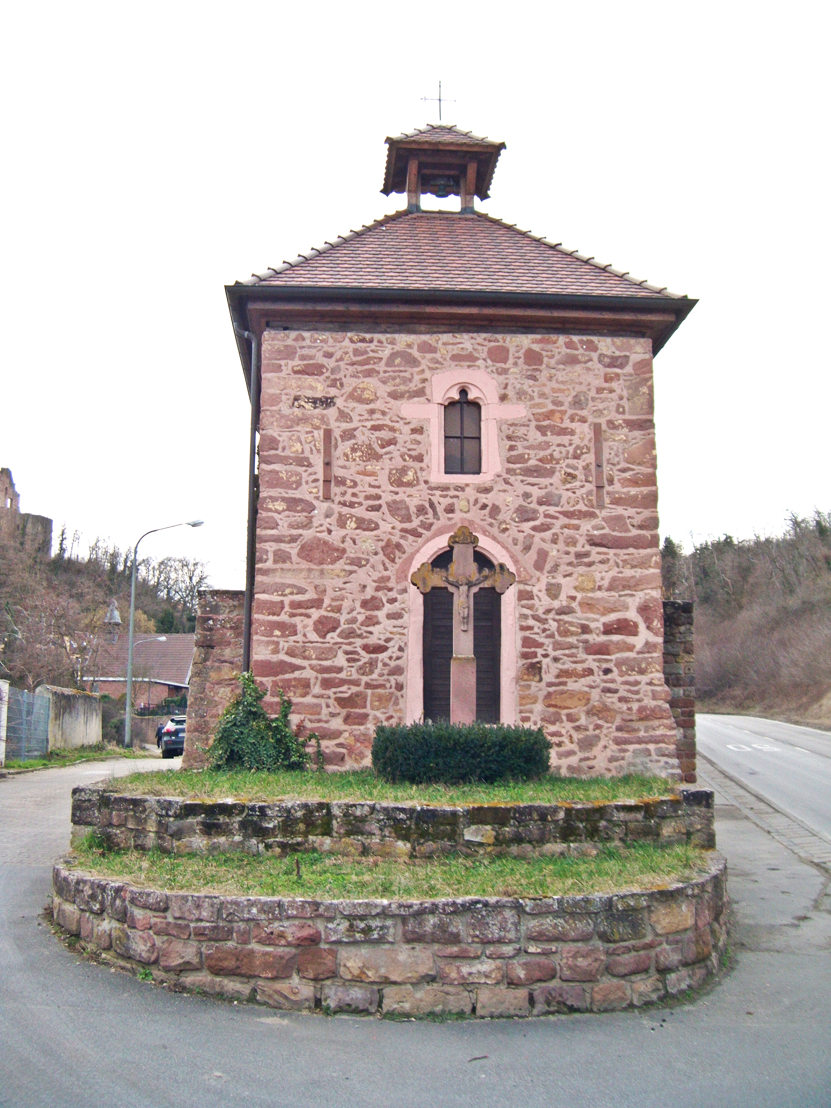 Neuleiningen, beim Friedhof, Scharfrichterkreuz (1703), dahinter Friedhofskapelle "Heiligenhäuschen"